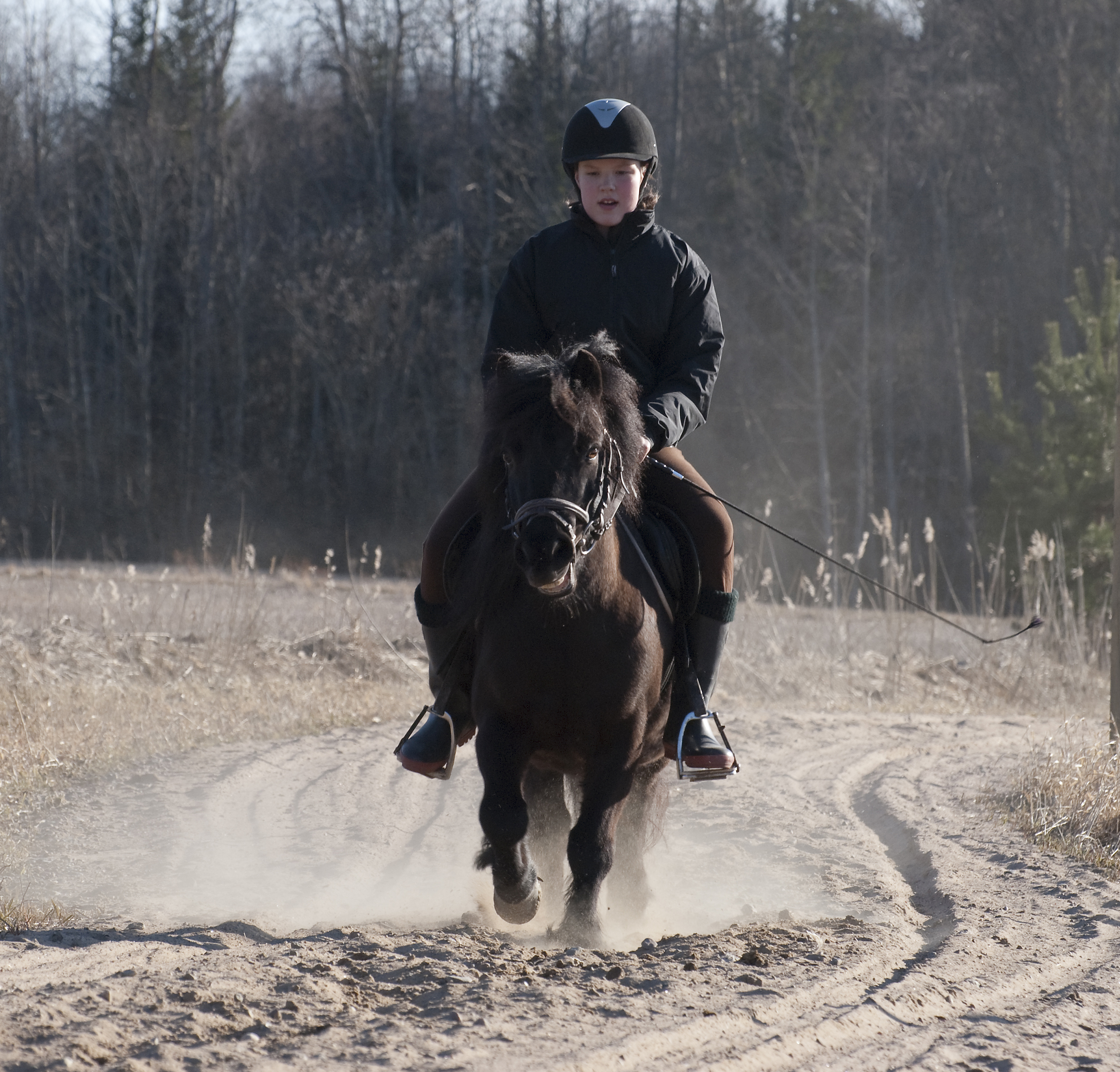 Dusty Trail